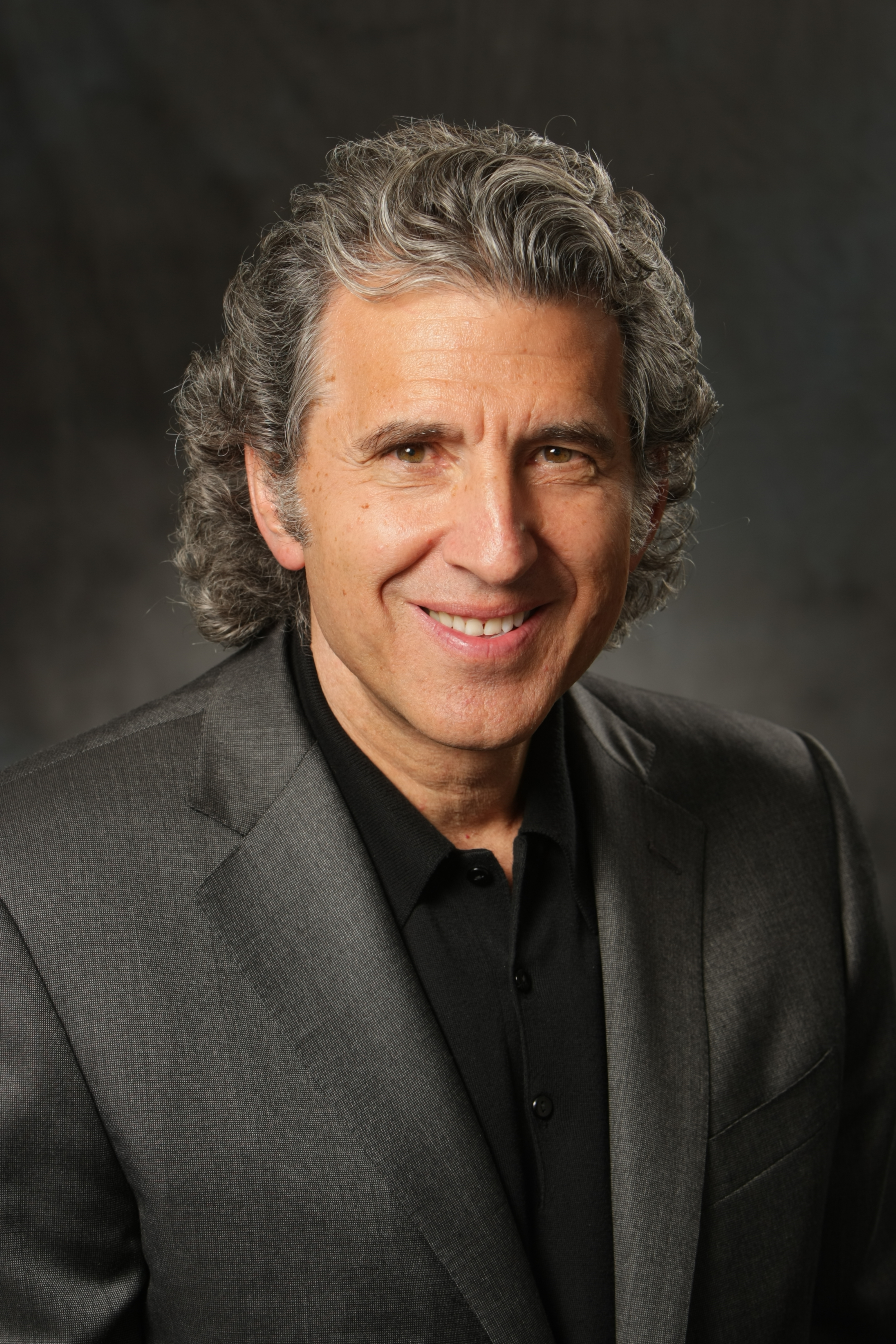 Armyan Bernstein Portrait